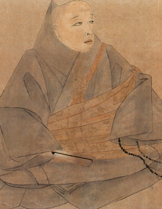 Detail of a Portrait of Emperor Hanazono (see other versions).